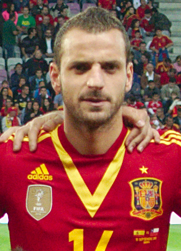 Roberto Soldado lining up for Spain against Chile in Geneva in 2013. Cropped from larger image of entire line-up.